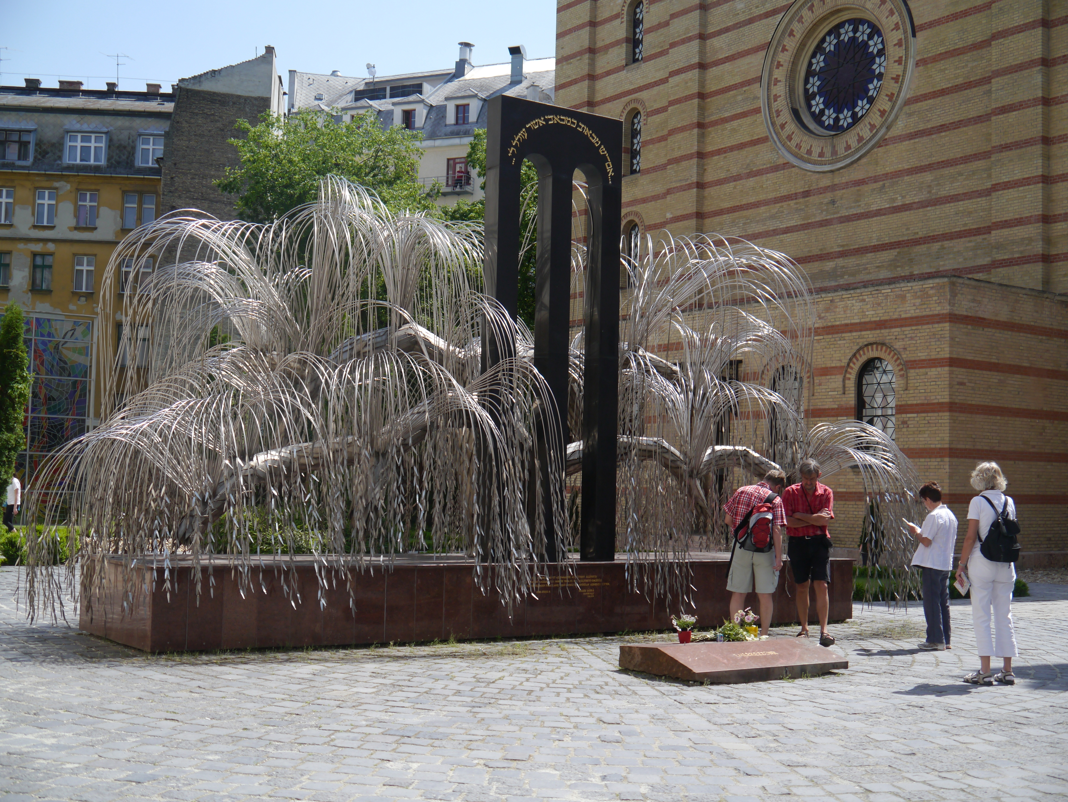 Holocaust Memorail at the Great Synagogue, Budapest, Northern Hungary